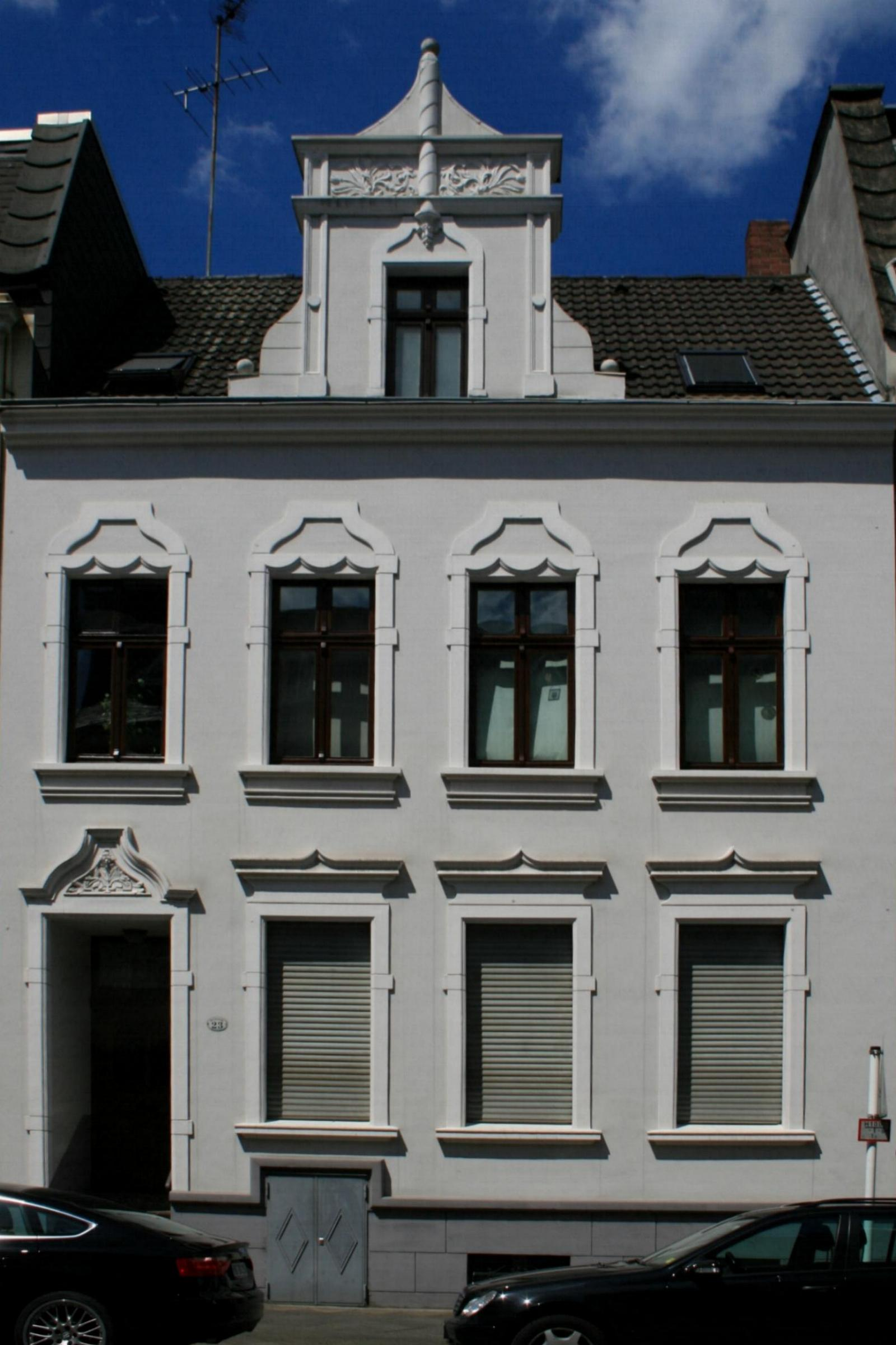 Cultural heritage monument No. G 015 in Mönchengladbach